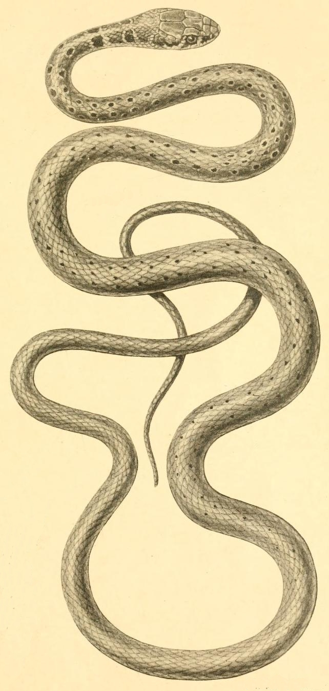 Platyceps najadum, a snake.